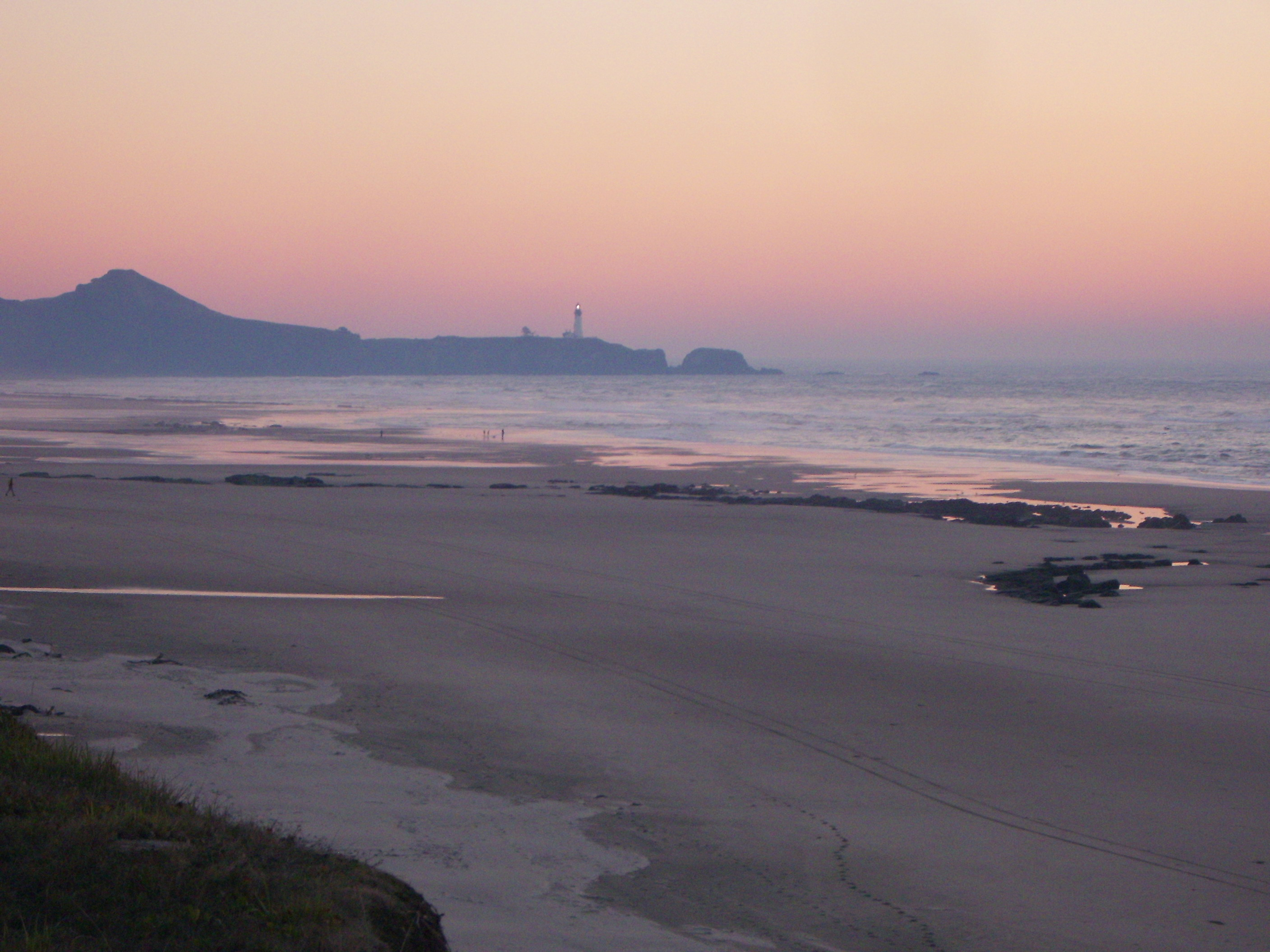 Moolack Beach sunset taken from the Moolack Shores motel looking southward. The Yaquina Head Light is visible.